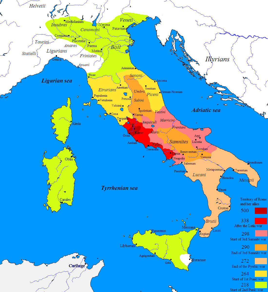 Map of the Roman take over of Italy.